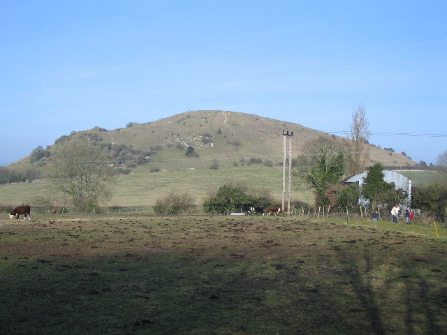 Cley Hill near Warminster, Wilts, UK.